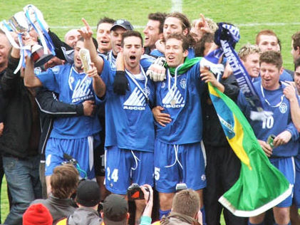 South Melbourne FC celebrating their 2006 Victorian Premier League title. The player draped in the Brazilian flag is Fernando de Moraes